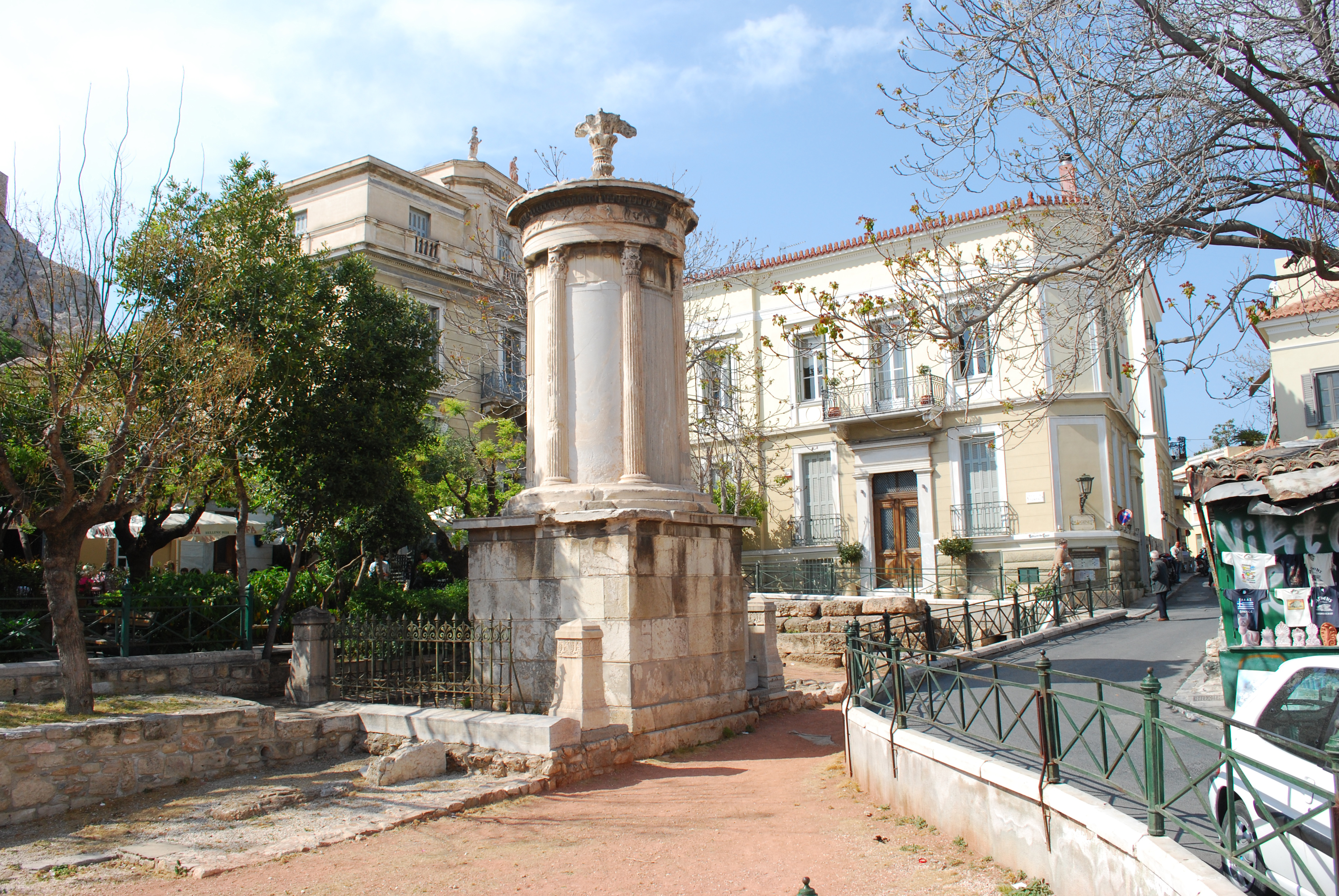 Plaka (Athens) : Monument of Lysicrates.